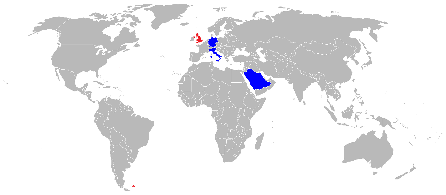 Operators of the Panavia Tornado. Own work, derivative of File:BlankMap-World.png.